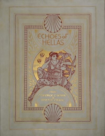 The title page of 'Echoes of Hellas' by George Charles Winter Warr and Walter Crane, published by Marcus Ward & Company in England in 1887.